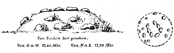 Megalithic Tomb Wohrenstorf (Sprockhoff-No. 368)